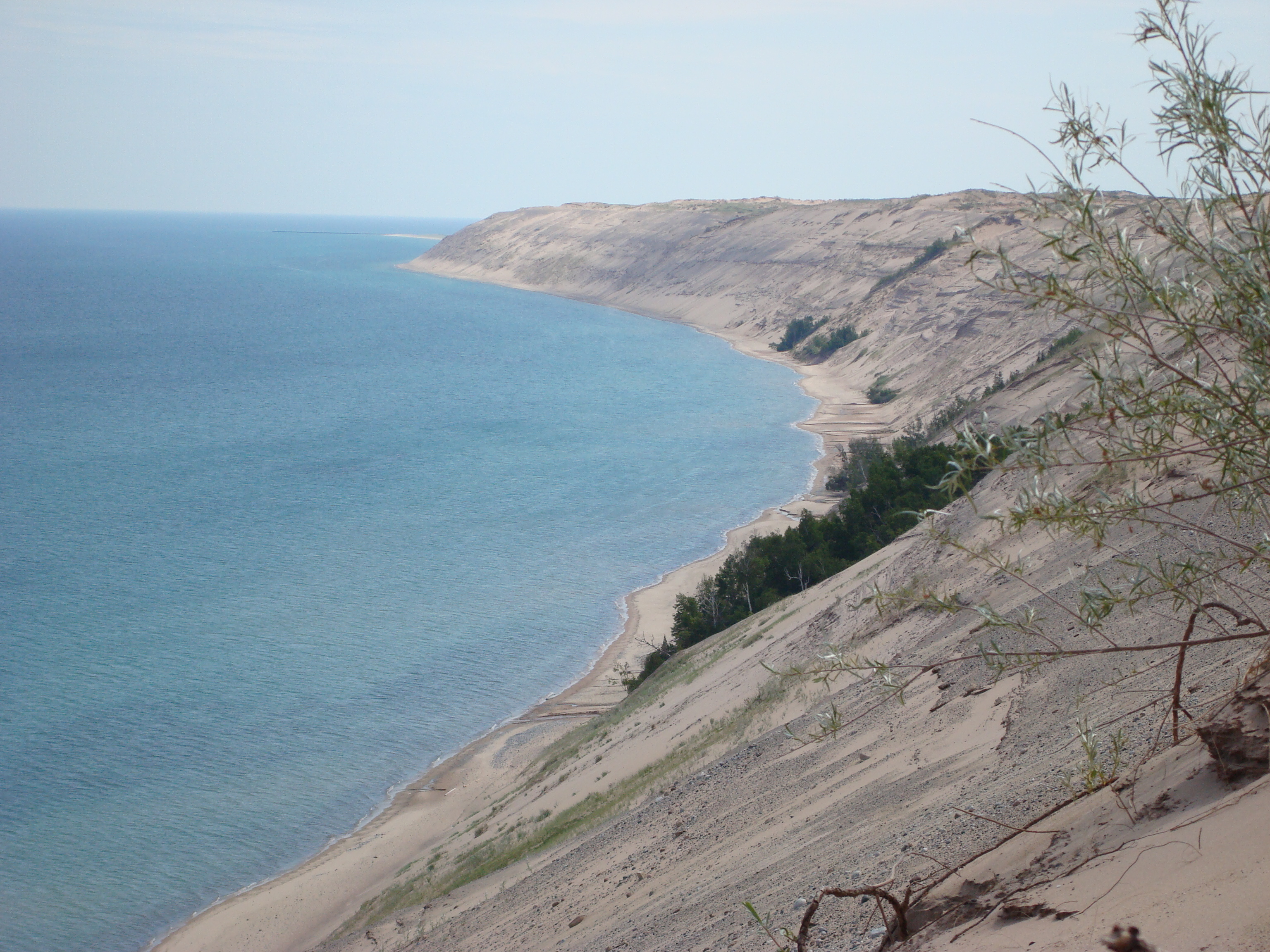 A picture of the Grand Sable Dunes near Grand Marais Upper Peninsula Michigan. The Picture was taken facing east.